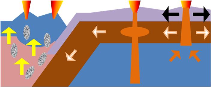 Volcanoes near a subduction